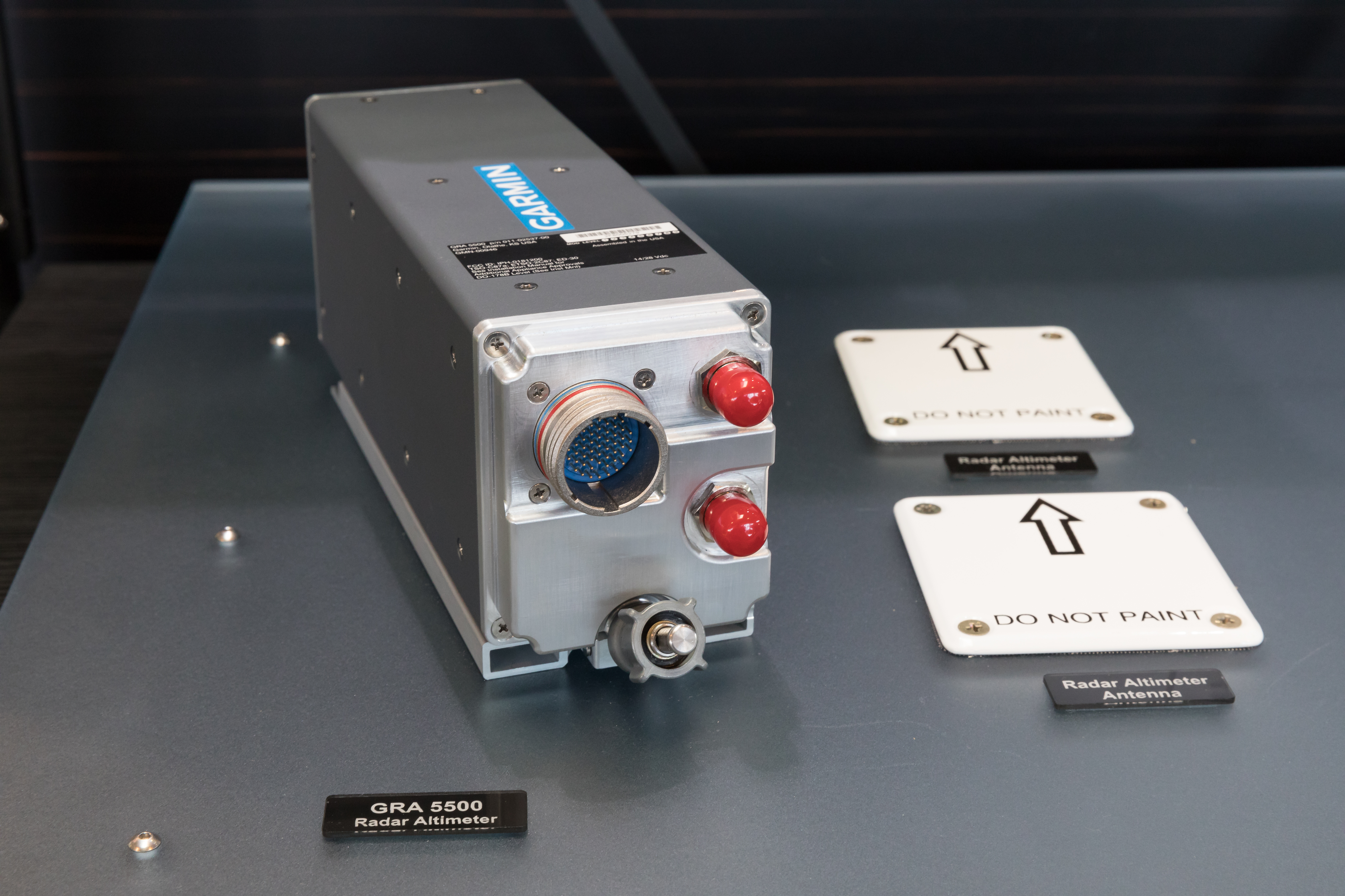 Garmin radar altimeter at AERO Friedrichshafen 2018